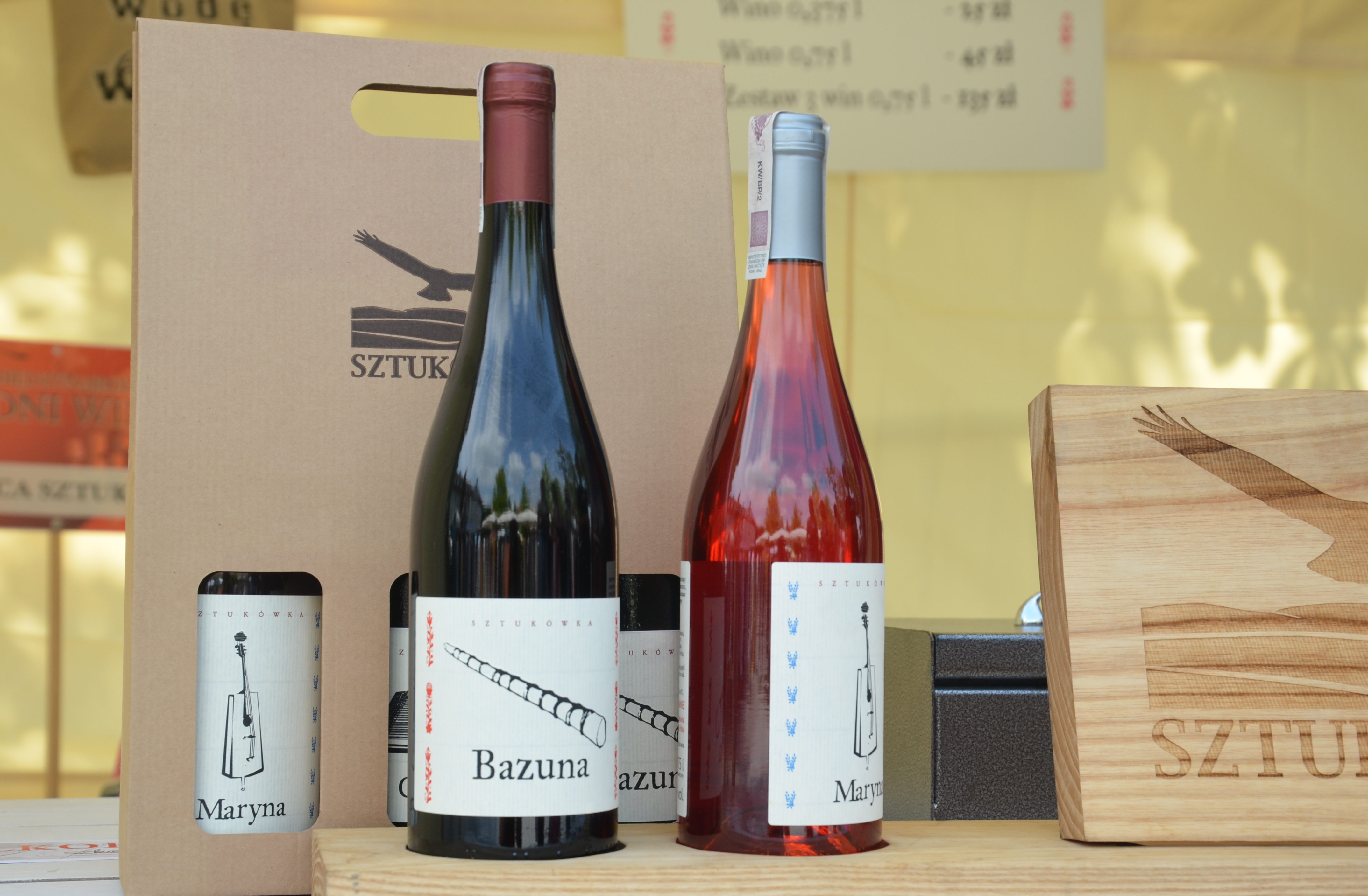 Weine aus Beskiden